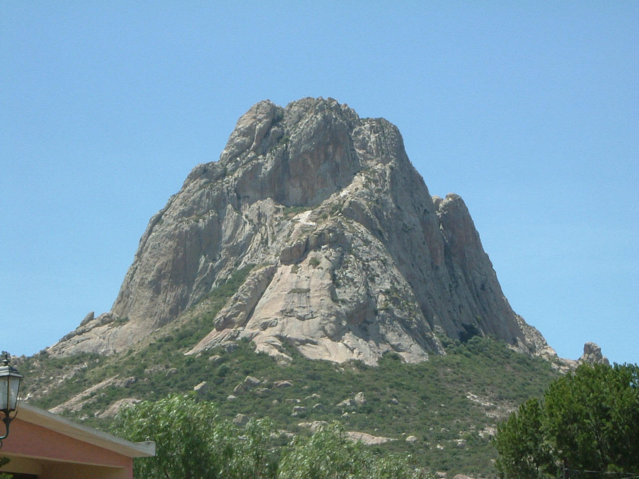 The Boulder of Bernal at Ezequiel Montes, Queretaro, Mexico. The third largest monolith on Earth.